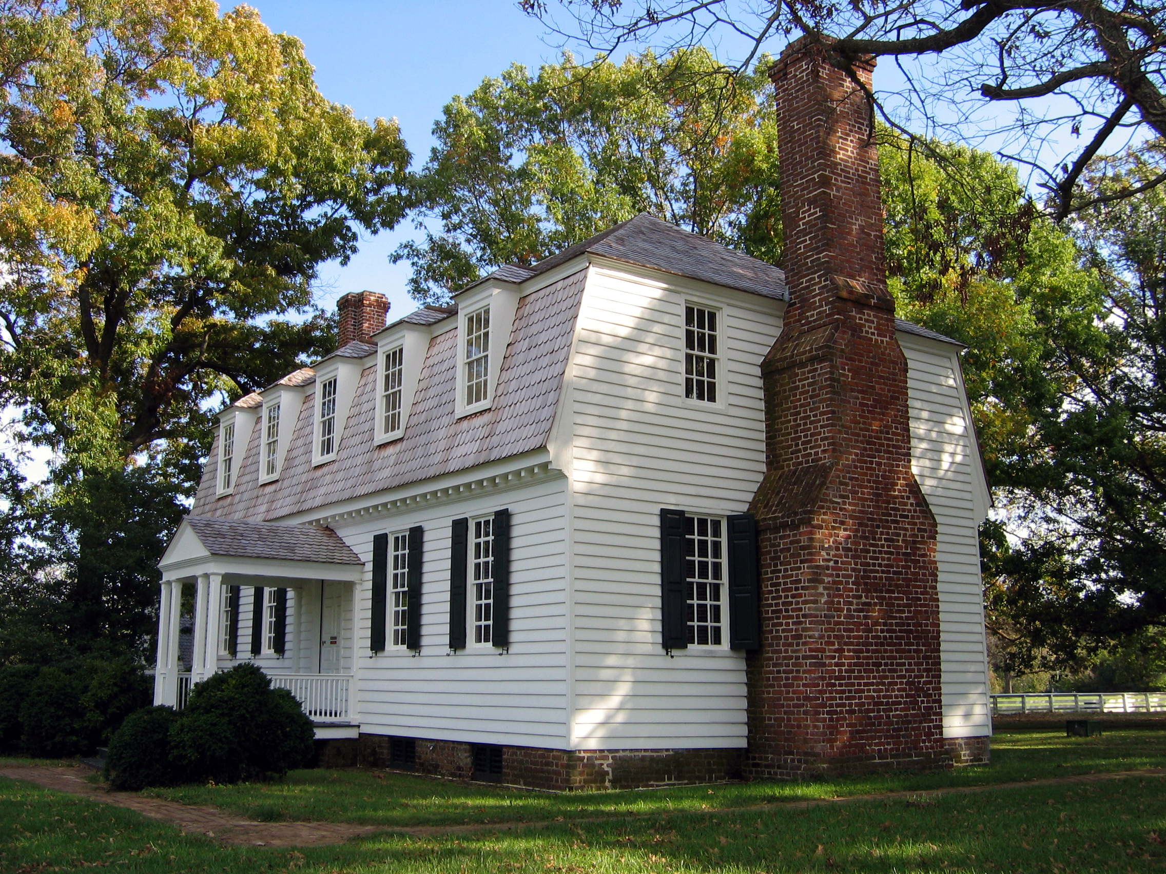 Moore House in Yorktown, Virginia, where the British surrendered at the end of the American Revolutionary War.